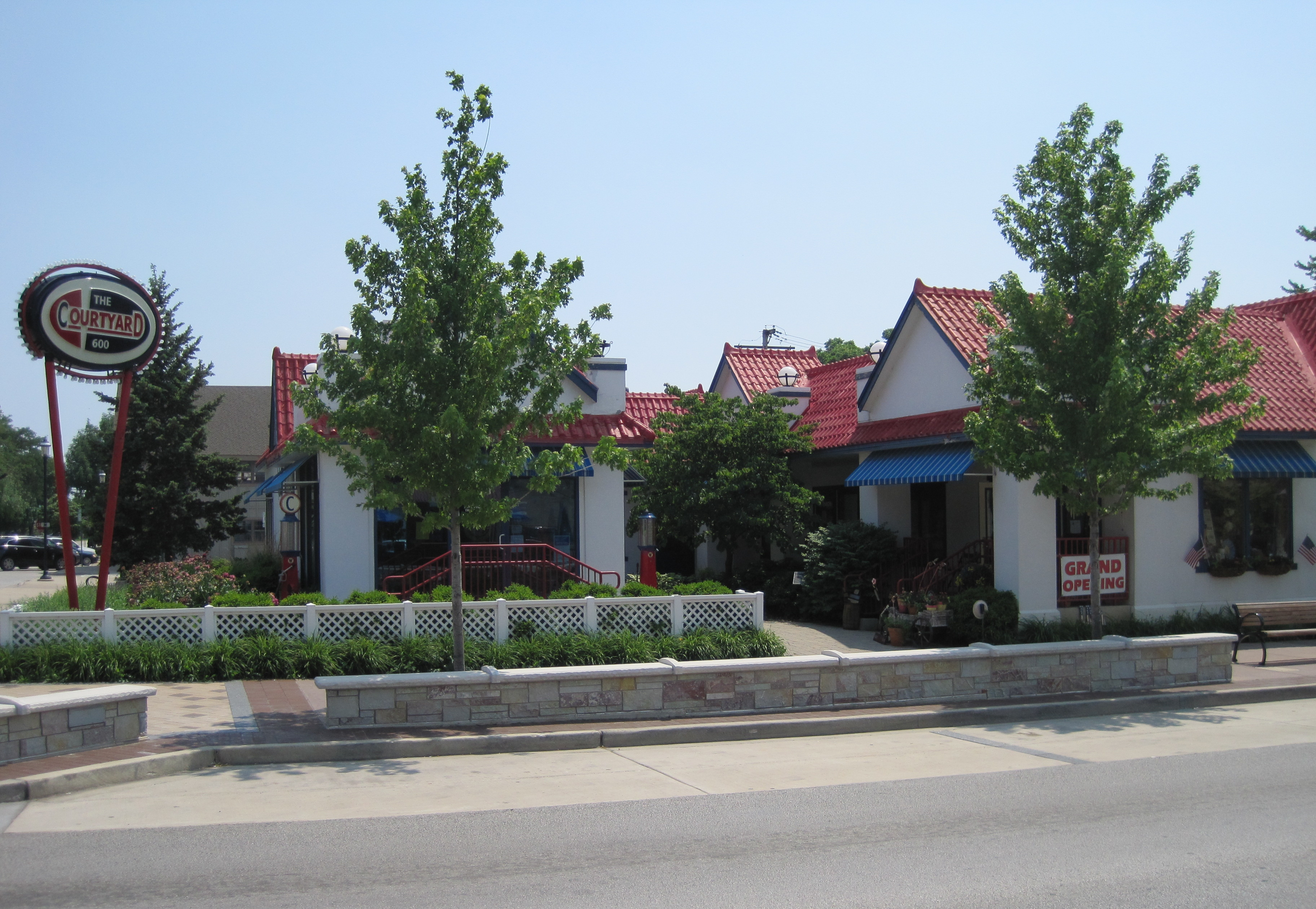 I (Teemu08 (talk)) took this image on June 8, 2011